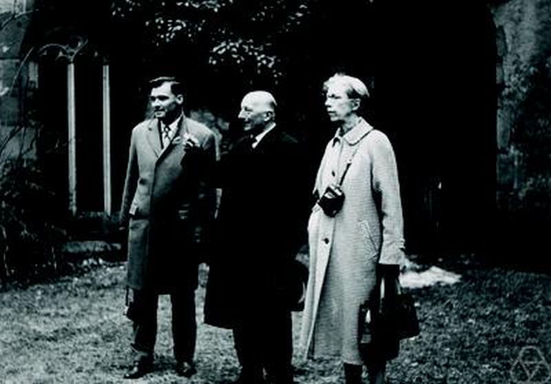 From left:Dieter Gaier, Edward Collingwood, Mary Cartwright